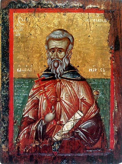 Religious icon, tempera on wood 32.5x24.2 cm, Andrija Raičević